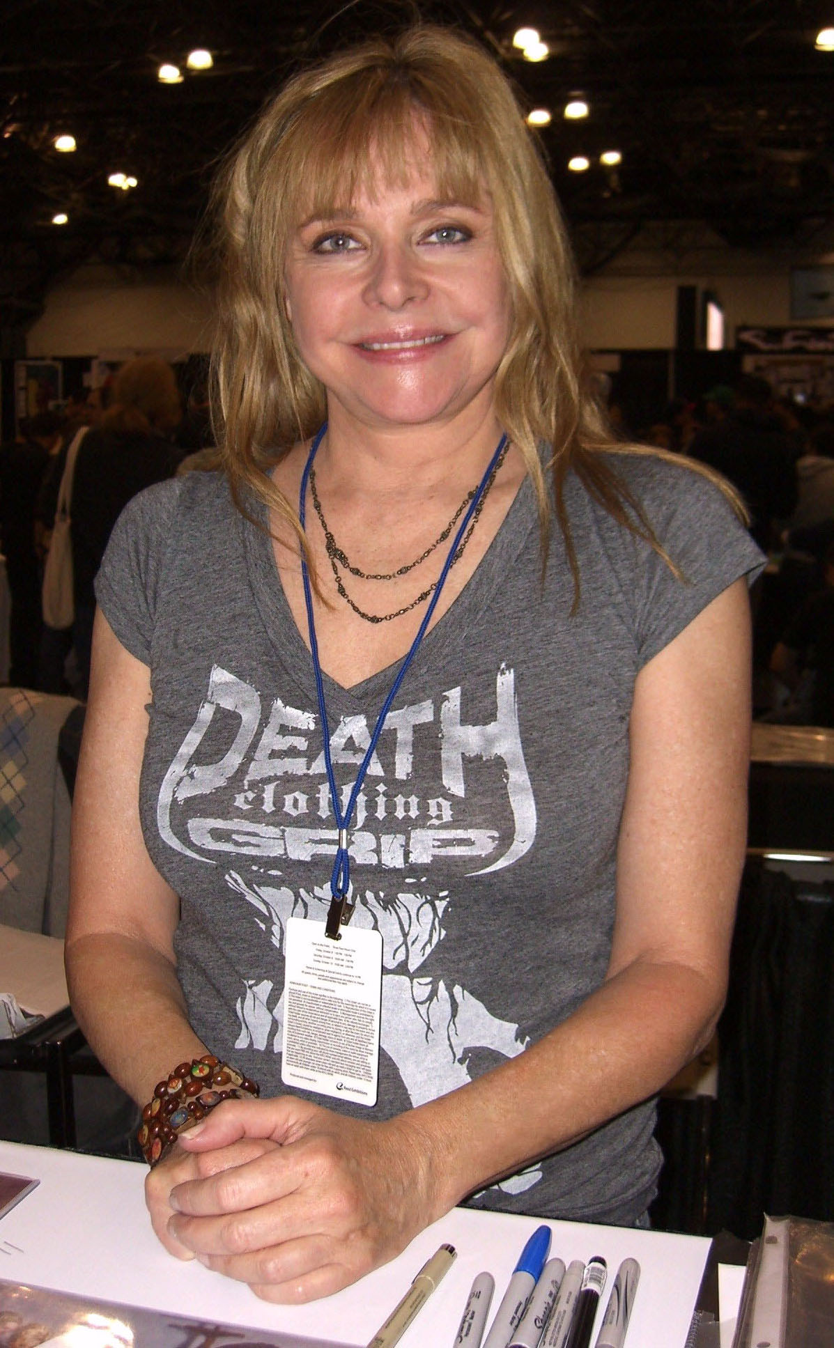 Actress Priscilla Barnes at the New York Comic Convention in Manhattan, October 10, 2010. Photo by Luigi Novi. This photo may be used, modified and published for any purpose, only if the photographer is visibly credited in each instance in which it is used. (See licensing information below.) Publication of this photo without proper attribution constitute copyright infringement. For more information on my photos, you can contact me here.